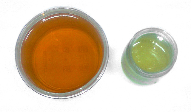 Two-component polyurethane varnish UR-231. Basis varnish left. Hardener - right.